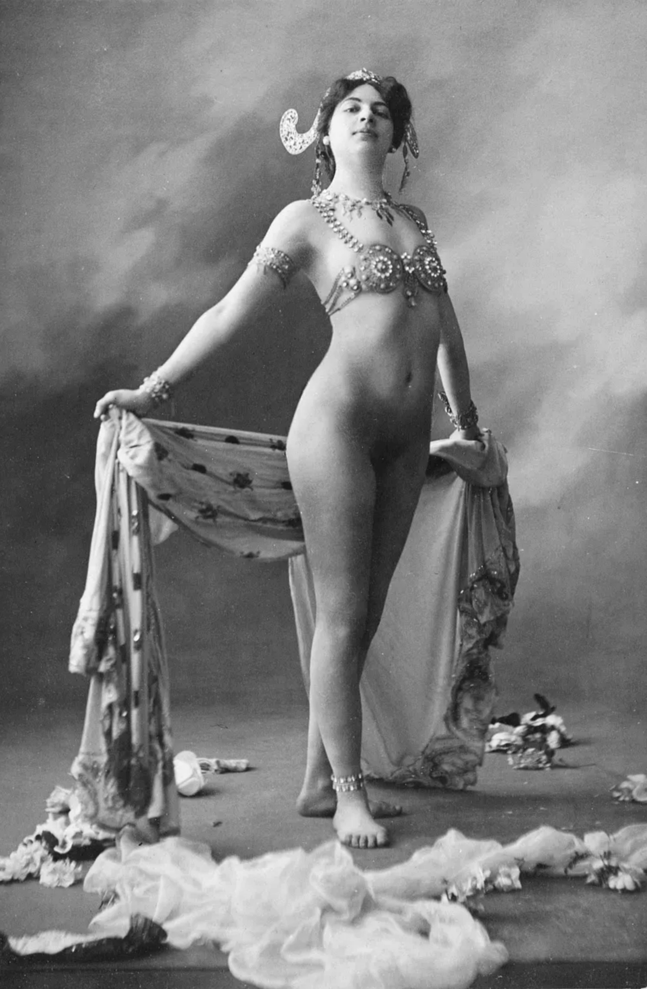 Margaretha Zelle, alias Mata Hari